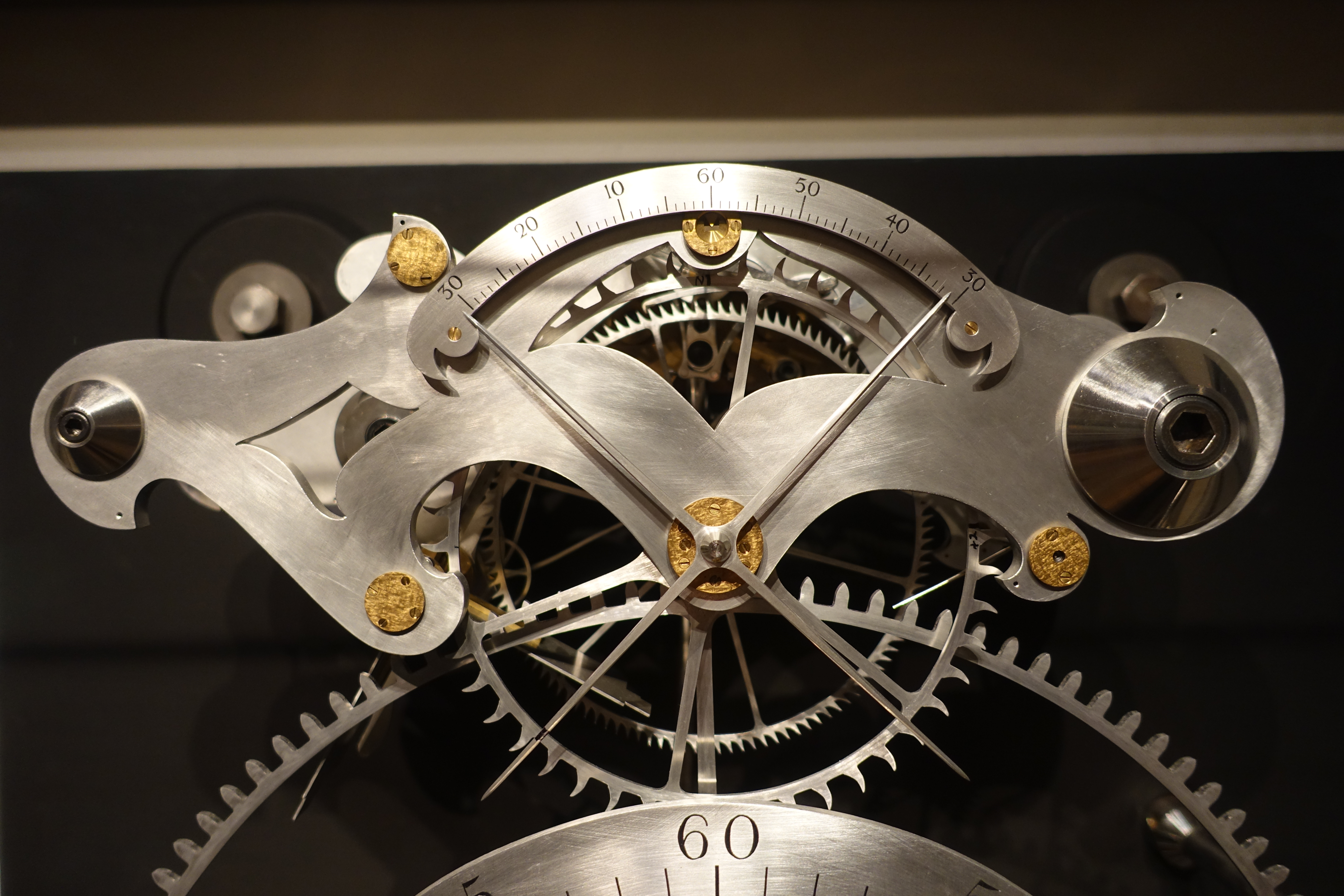 Martin Burgess - Clock B at the Royal Observatory - Greenwich detail top side